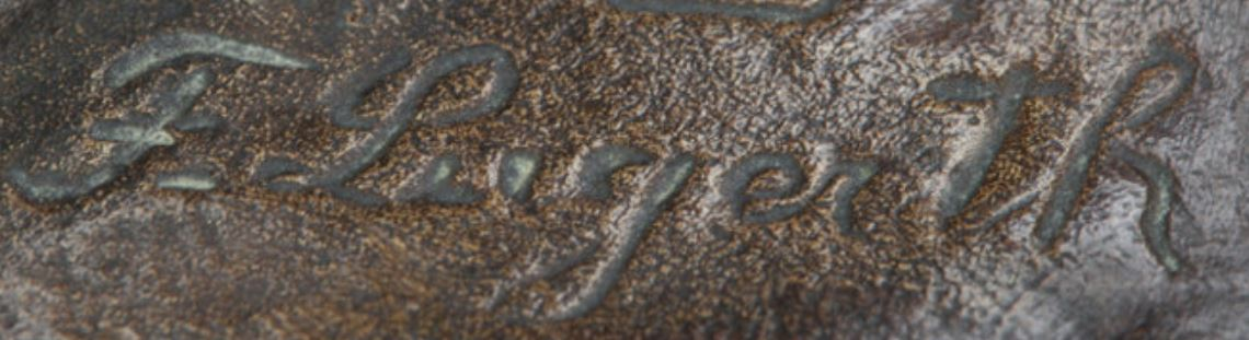 Signature of German sculptor Ferdinand Lugerth